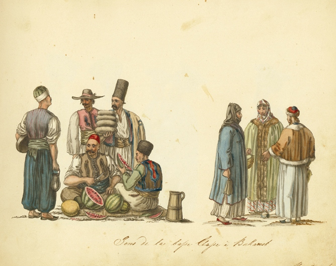 People in Bucharest, 1825 - Gens de la basse Classe à Bukarest